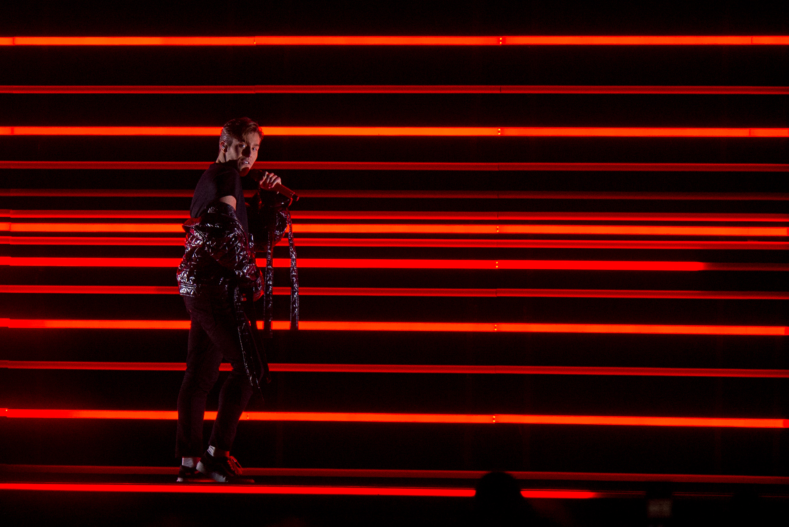 Melodifestivalen 2018 Final in Stockholm